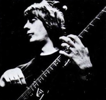 Photo of musician Dee Murray from a Dick James Music company ad.